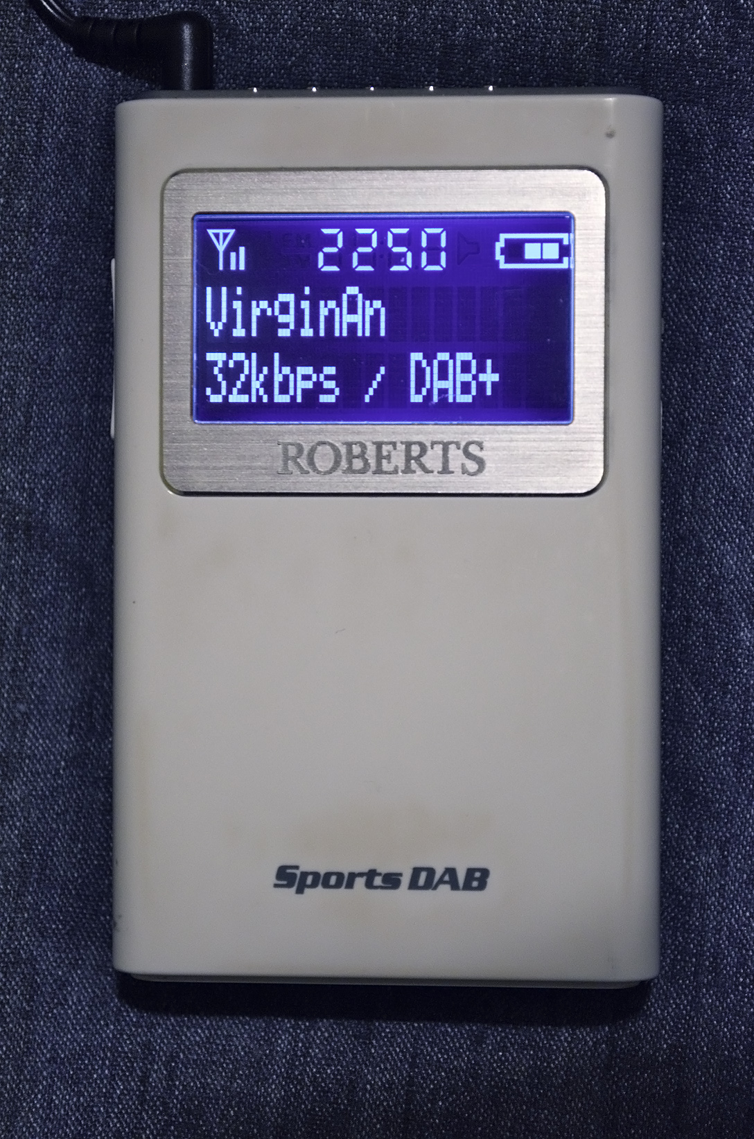 Portable radio receiving a DAB+ station in the UK. This reflects a change in policy to permit DAB+ broadcasts, which are incompatible with older DAB-only radios. (The station is "Virgin Radio Anthems", being broadcast at 32 kbps on the "SDL National"/"Sound Digital" multiplex on band 11A (216.928 MHz) in Scotland. The radio is a "Roberts Sports DAB 5" bought in late 2016, which is DAB, DAB+ and FM compatible.)